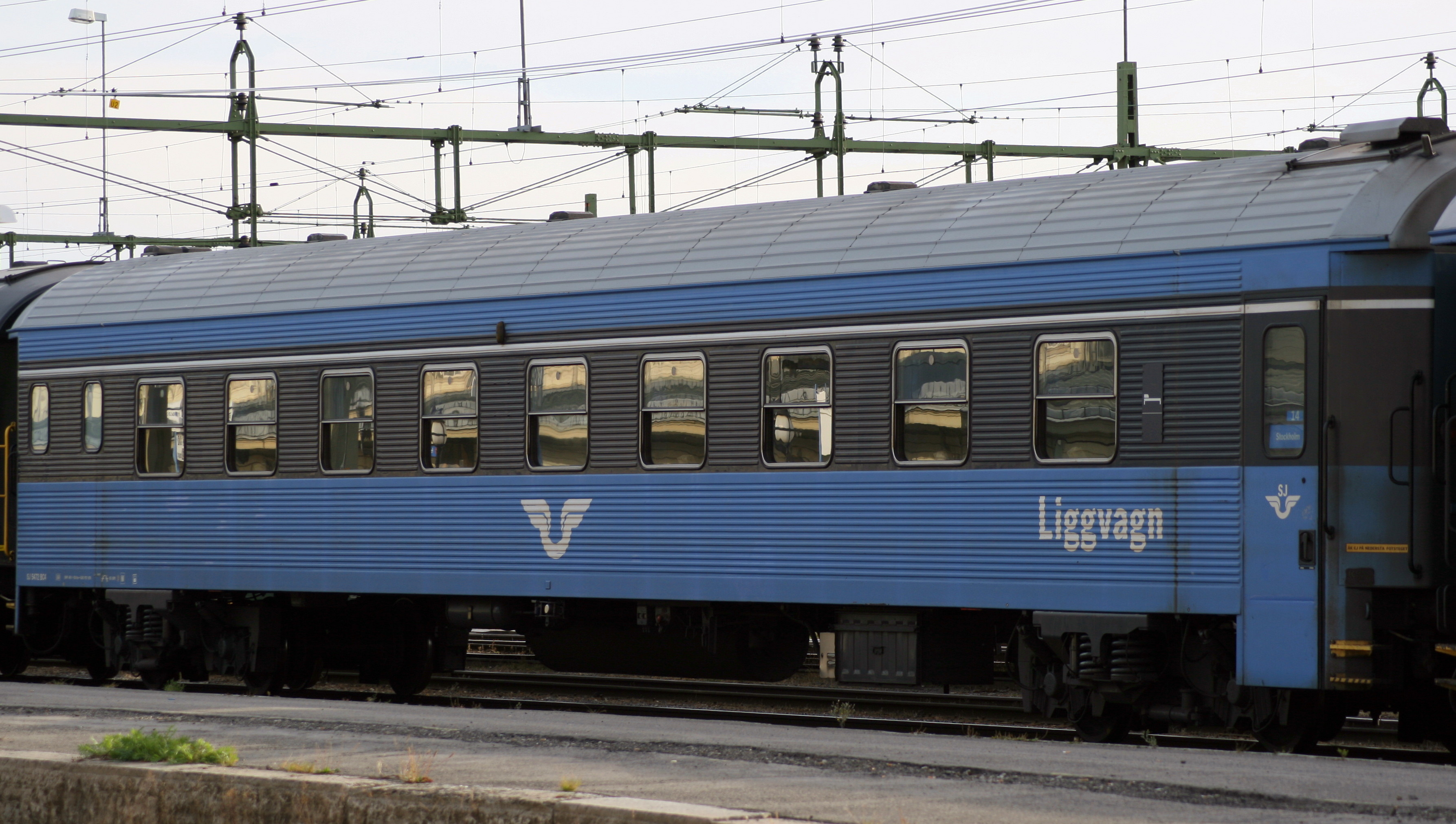 A BC4 couchette car in Östersund